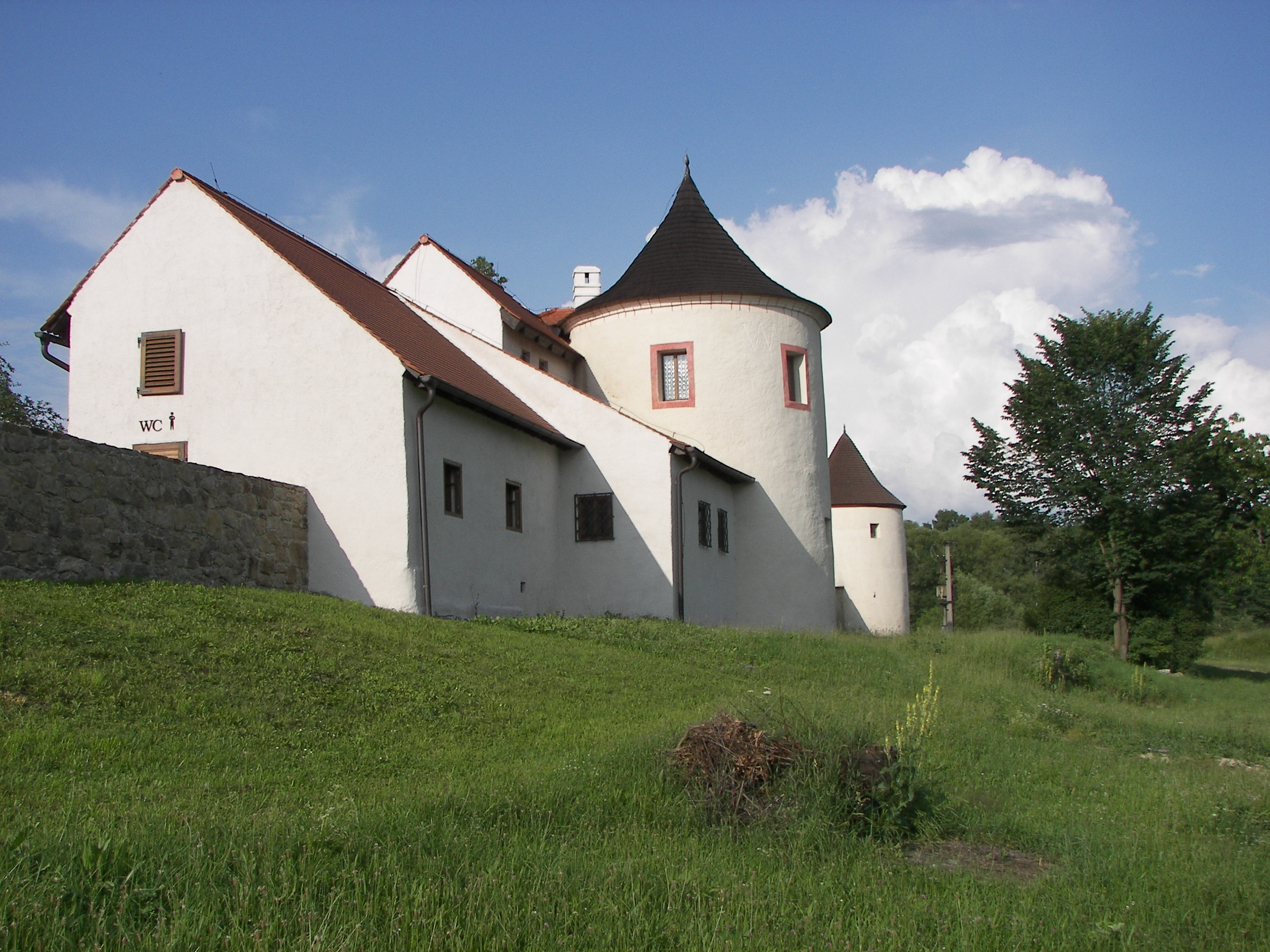 Žumberk fortress, nowadays a part of Žár municipality, České Budějovice District, Czech Republic.